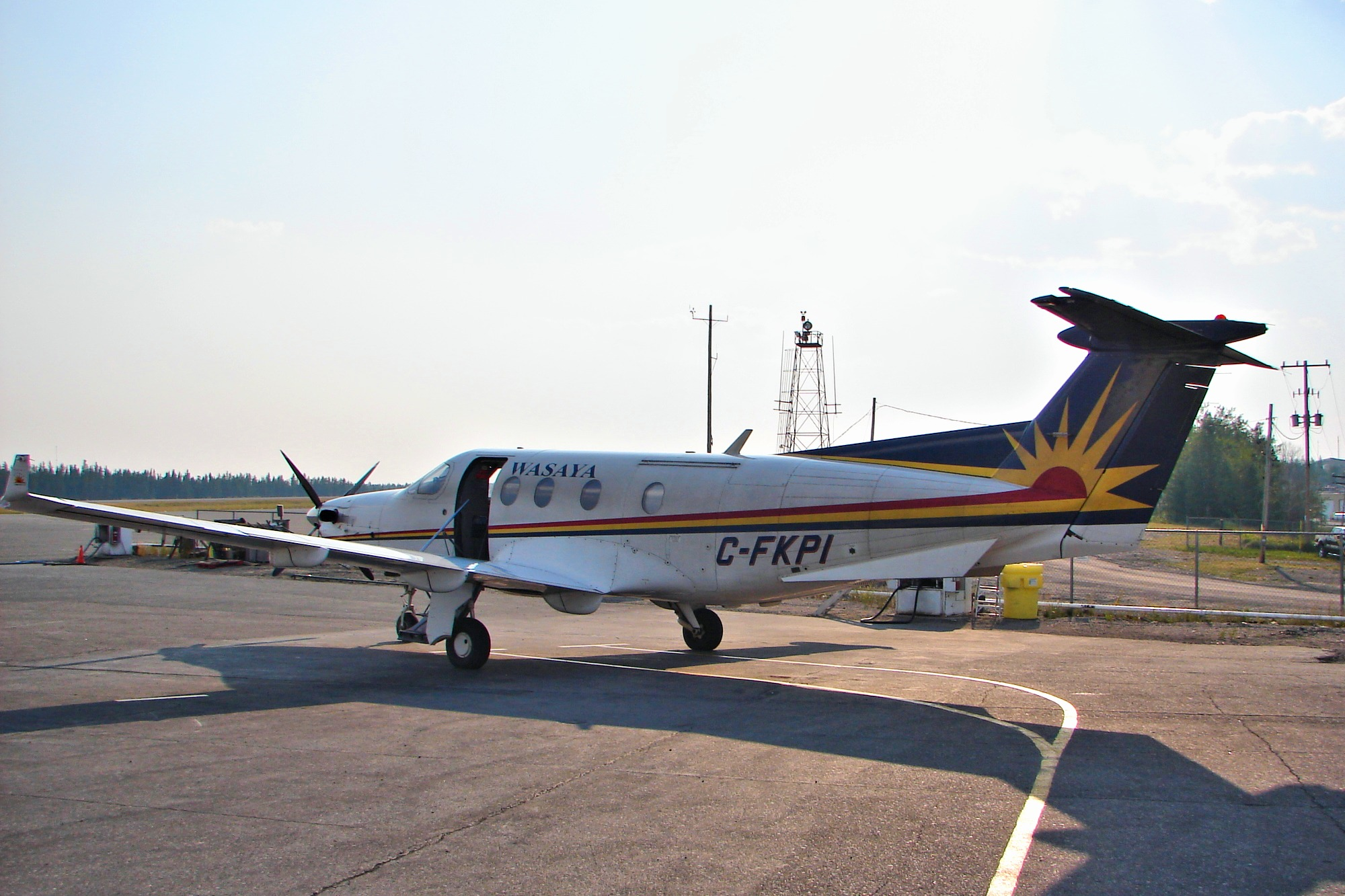 Wasaya Airways at Pickle Lake Airport, Ontario, Canada